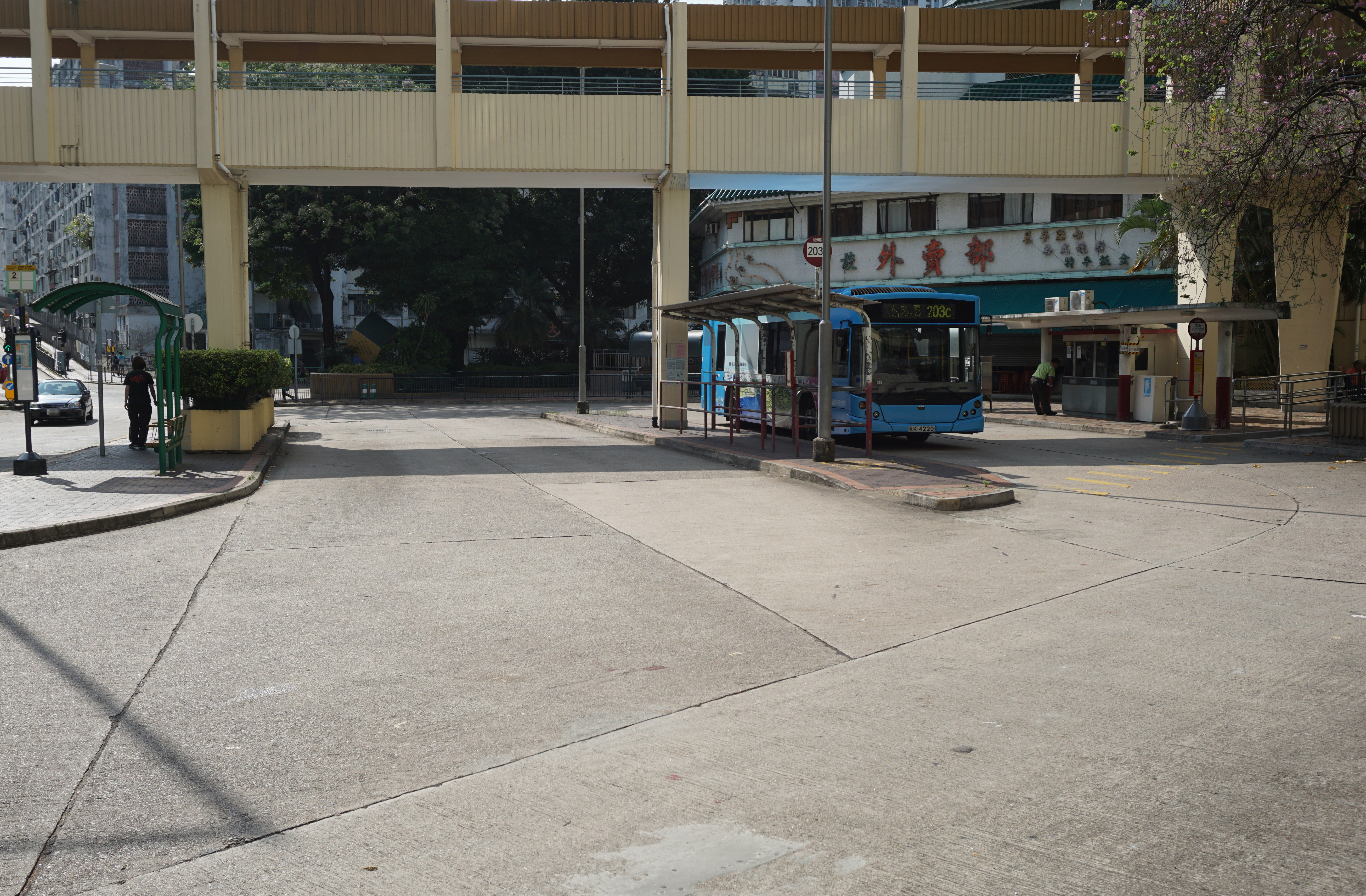 Tai Hang Tung Bus Terminus in Shek Kip Mei, Hong Kong.